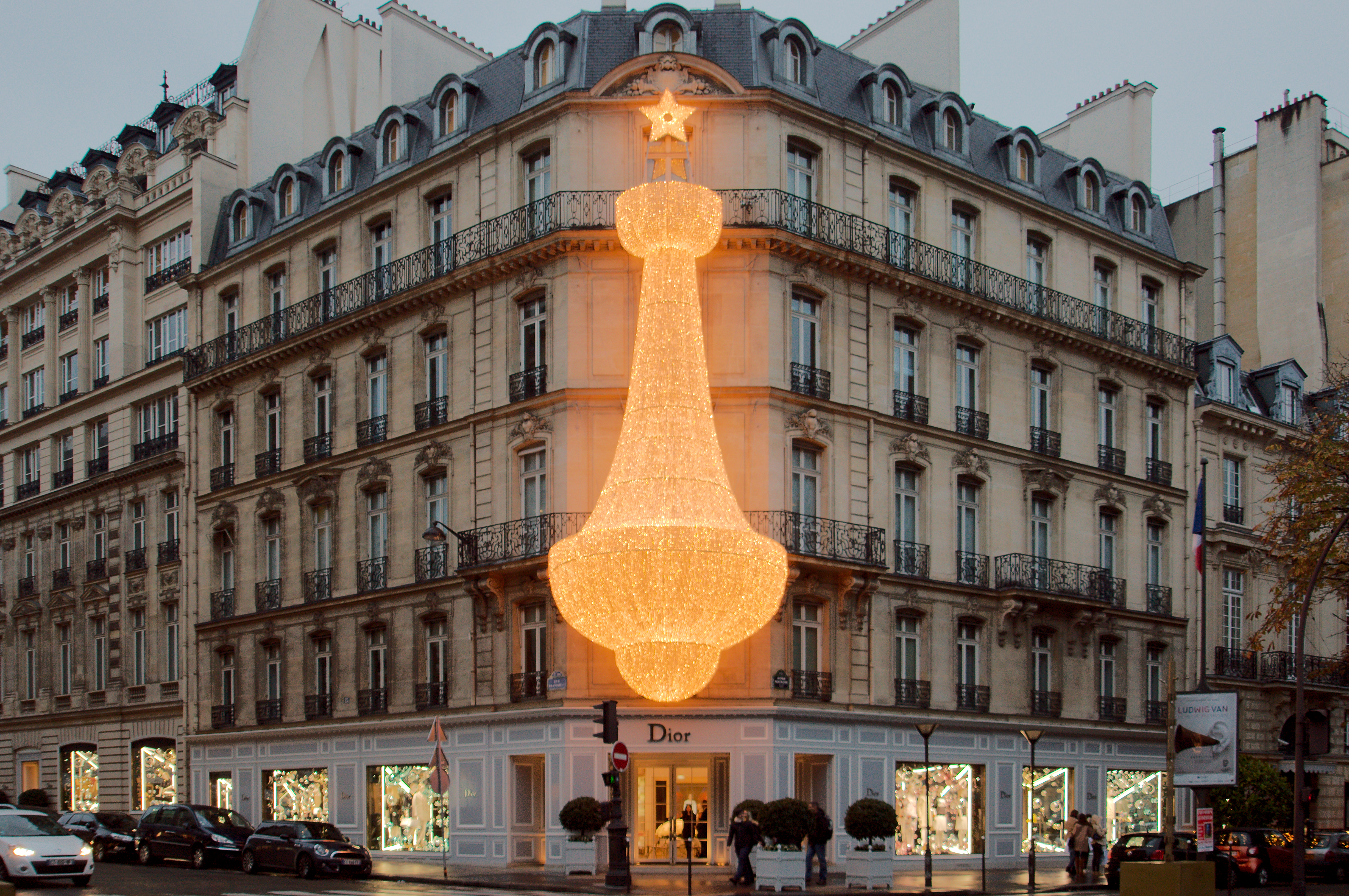 Dior - Paris Montaigne store, 30 Avenue Montaigne, Paris, France.